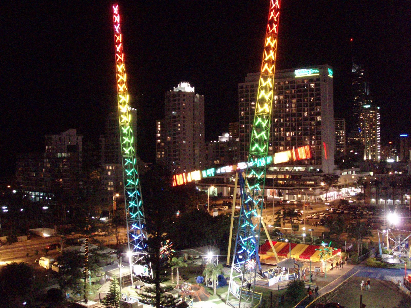 Unfortunately I didn't remember to bring my big camera with me on this trip. I really wanted to open up the shutter on this spinning wheel and have the neon do a big circular smear. Ah well maybe next time. See where this picture was taken. [?]